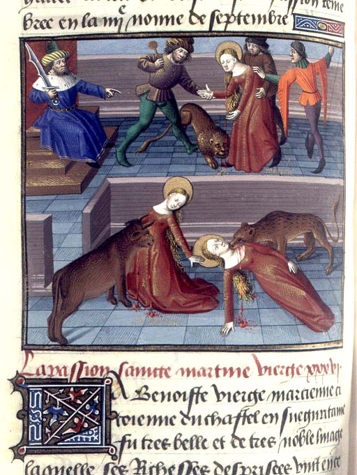 Le martyre de Sainte Marcienne (Martyrdom of Saint Marciana [of Mauretania])